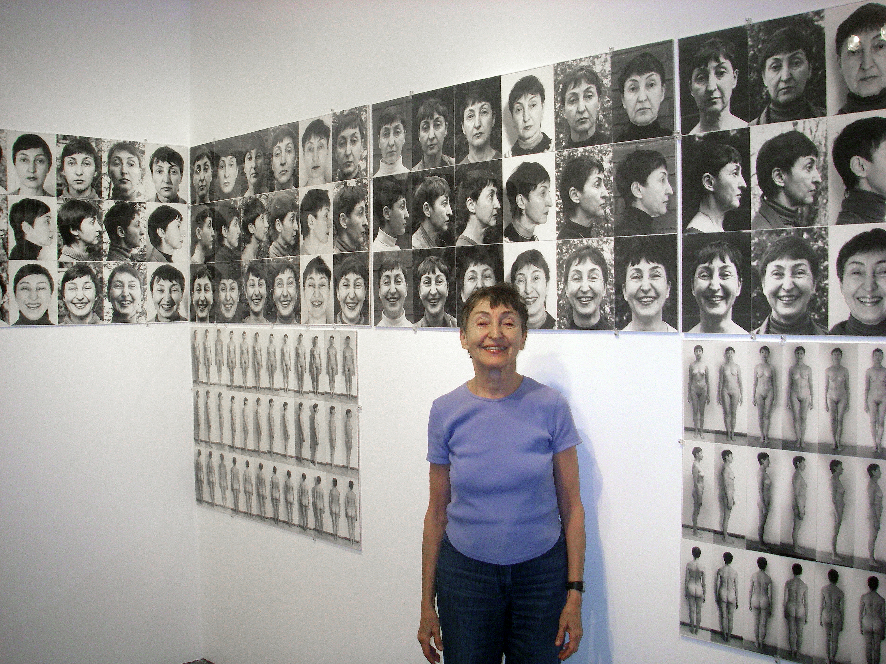 Portrait of artist Athena Tacha in front of her conceptual photographic work "36 Years of Aging" (1972-2008) shown at the Ellipse Gallery, Arlington, VA, 2008